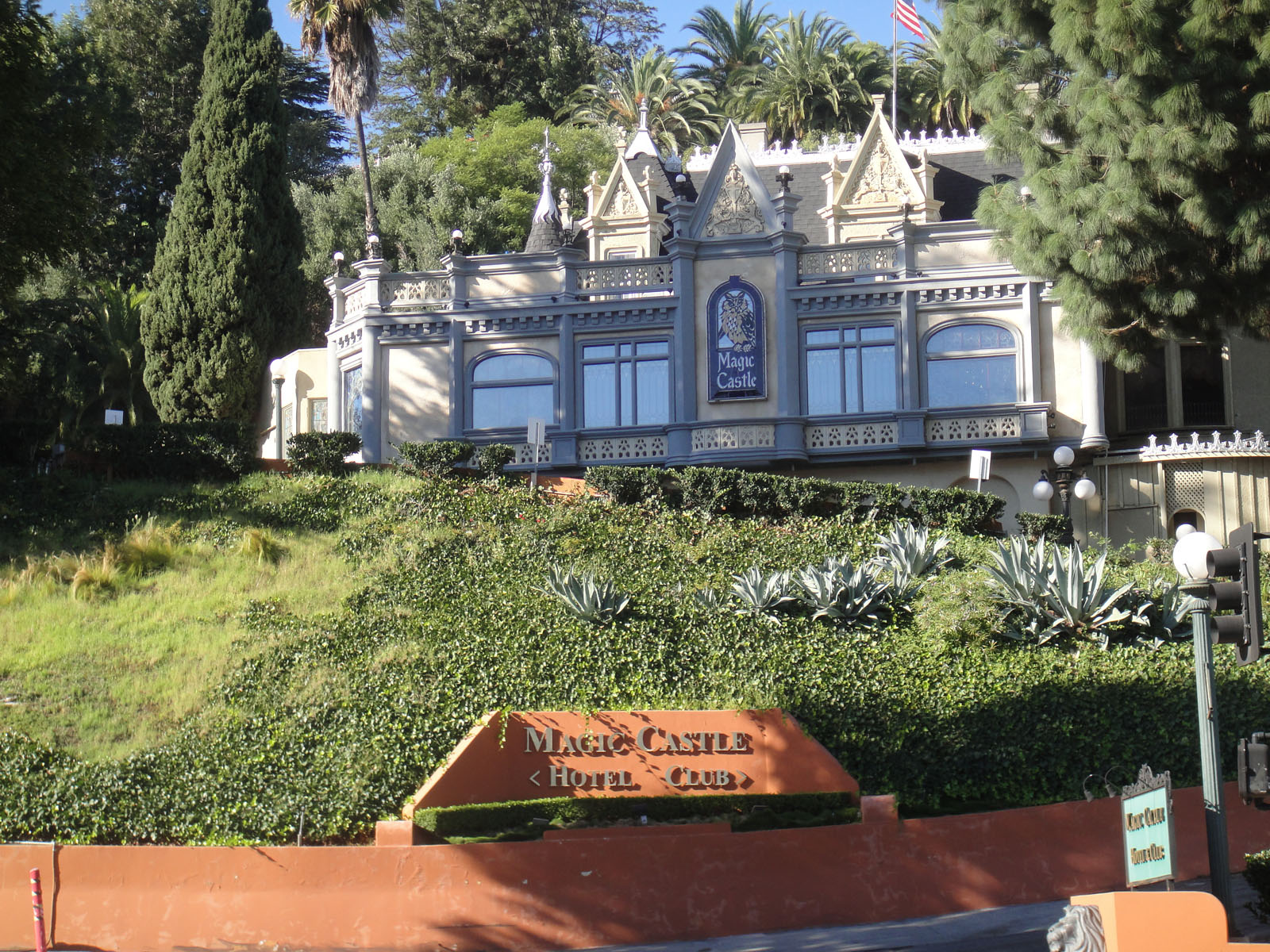 The Magic Castle in Hollywood